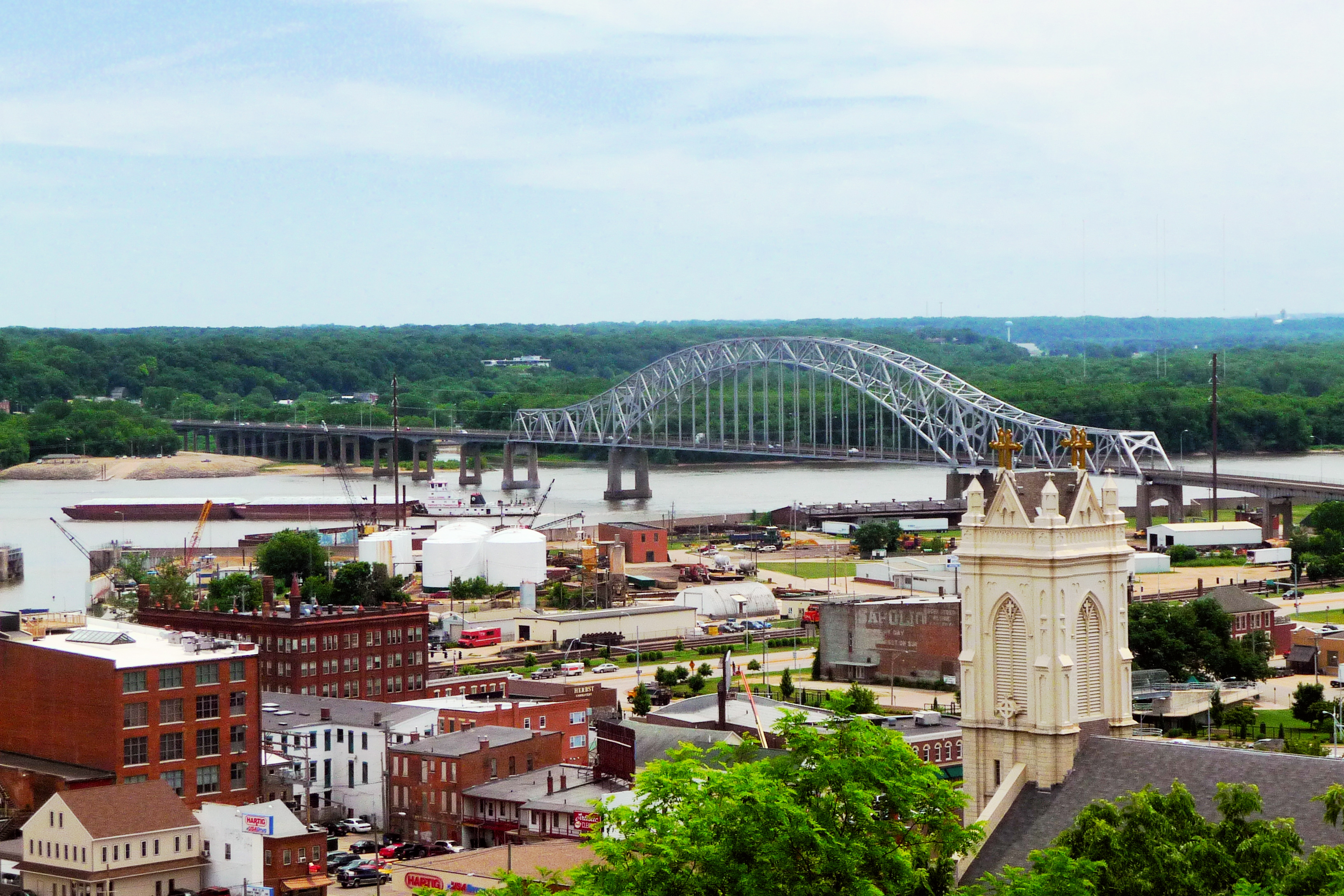 The Julien Dubuque Bridge joins the cities of Dubuque, Iowa, and East Dubuque, Illinois over the Mississippi River